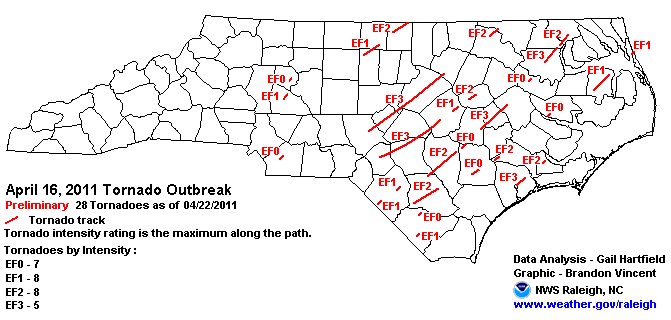 Preliminary map of all tornadoes that touched down in North Carolina on April 16, 2011.